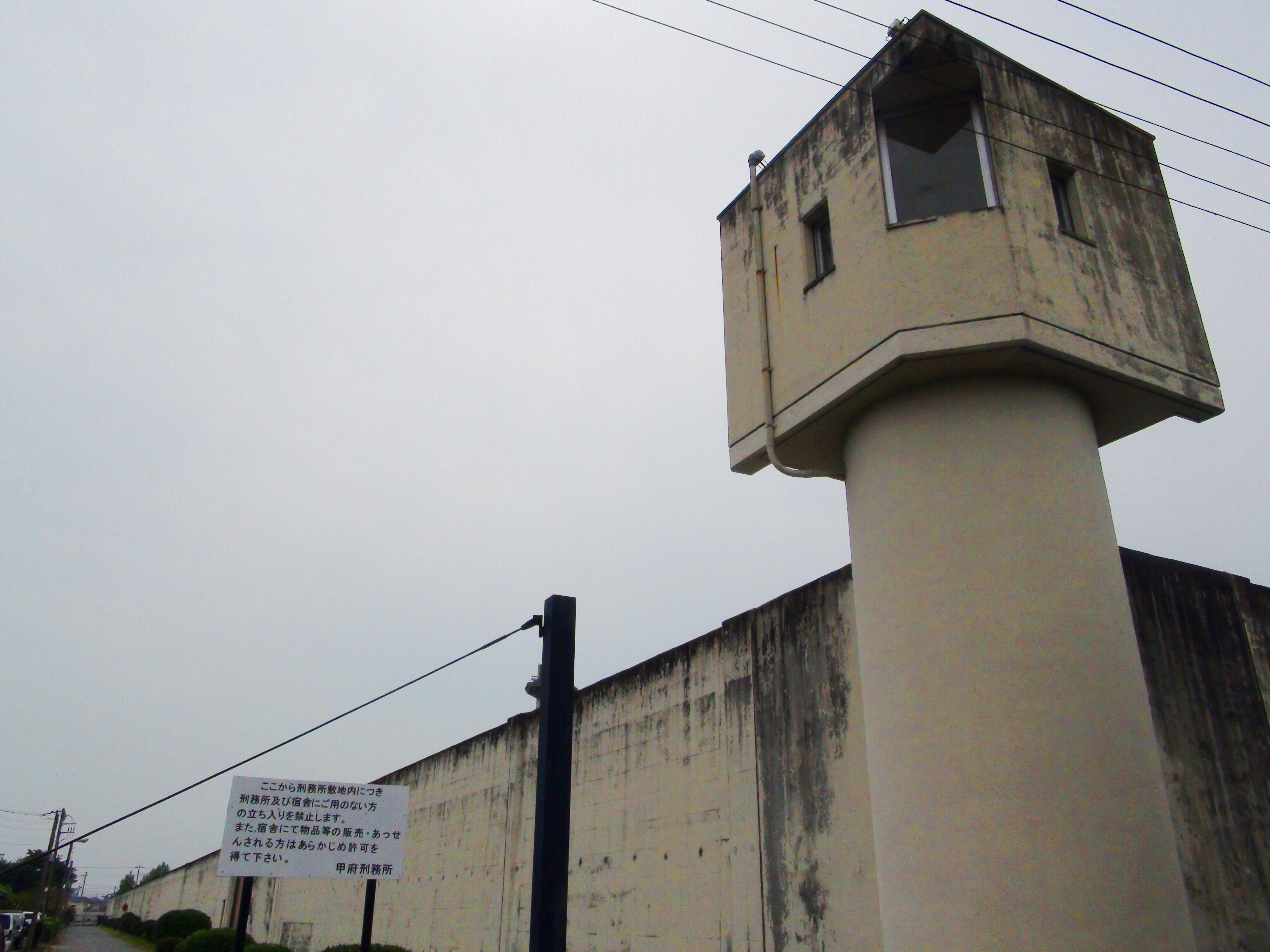 Kofu Prison